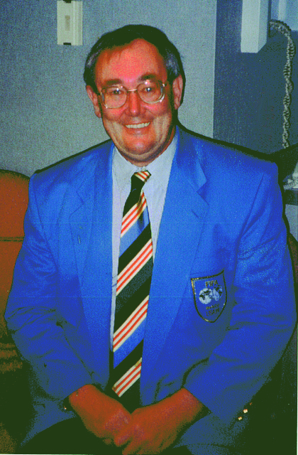 Picture of Alun Evans wearing an official FIFA World Cup 1994 blazer as sported by all FIFA delegates participating in the FIFA World Cup 1994.